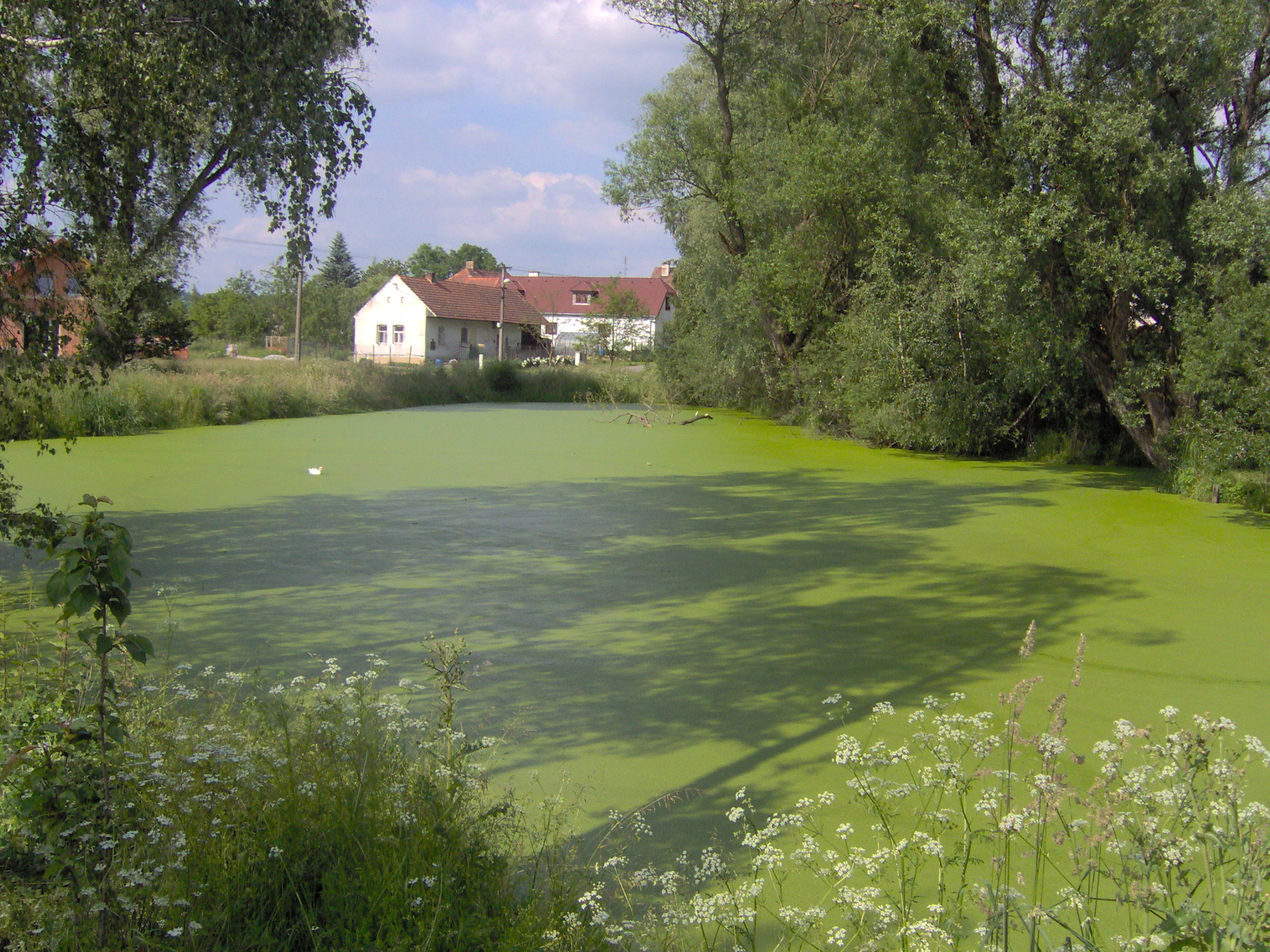 Pond in Mnichov, Strakonice District, Czech Republic